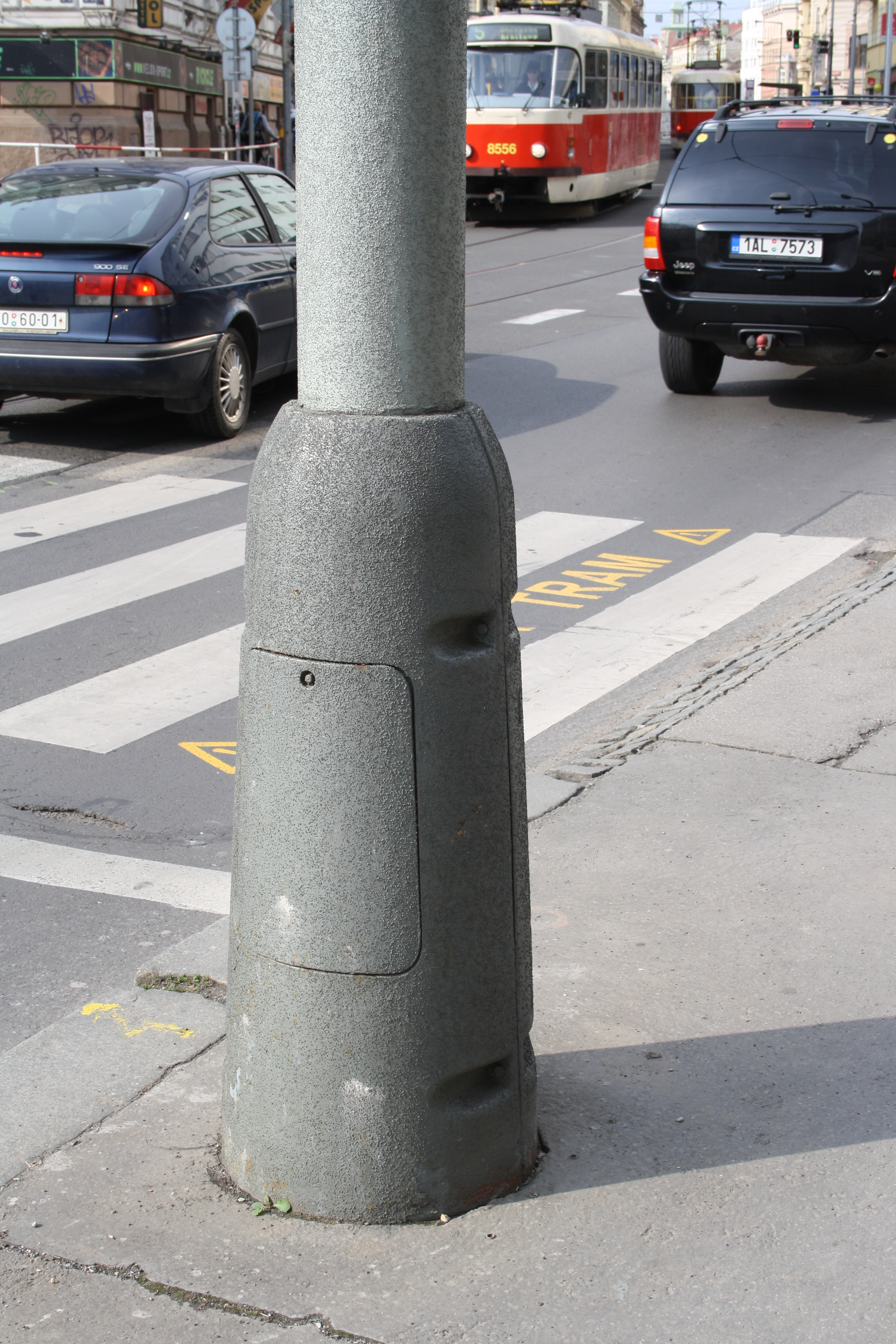 Streetlights, Dukelských hrdinů, Prague, Czech republic